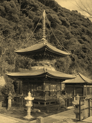 Tahōtō pagoda at Nago-dera, Tateyama, Chiba (1761)